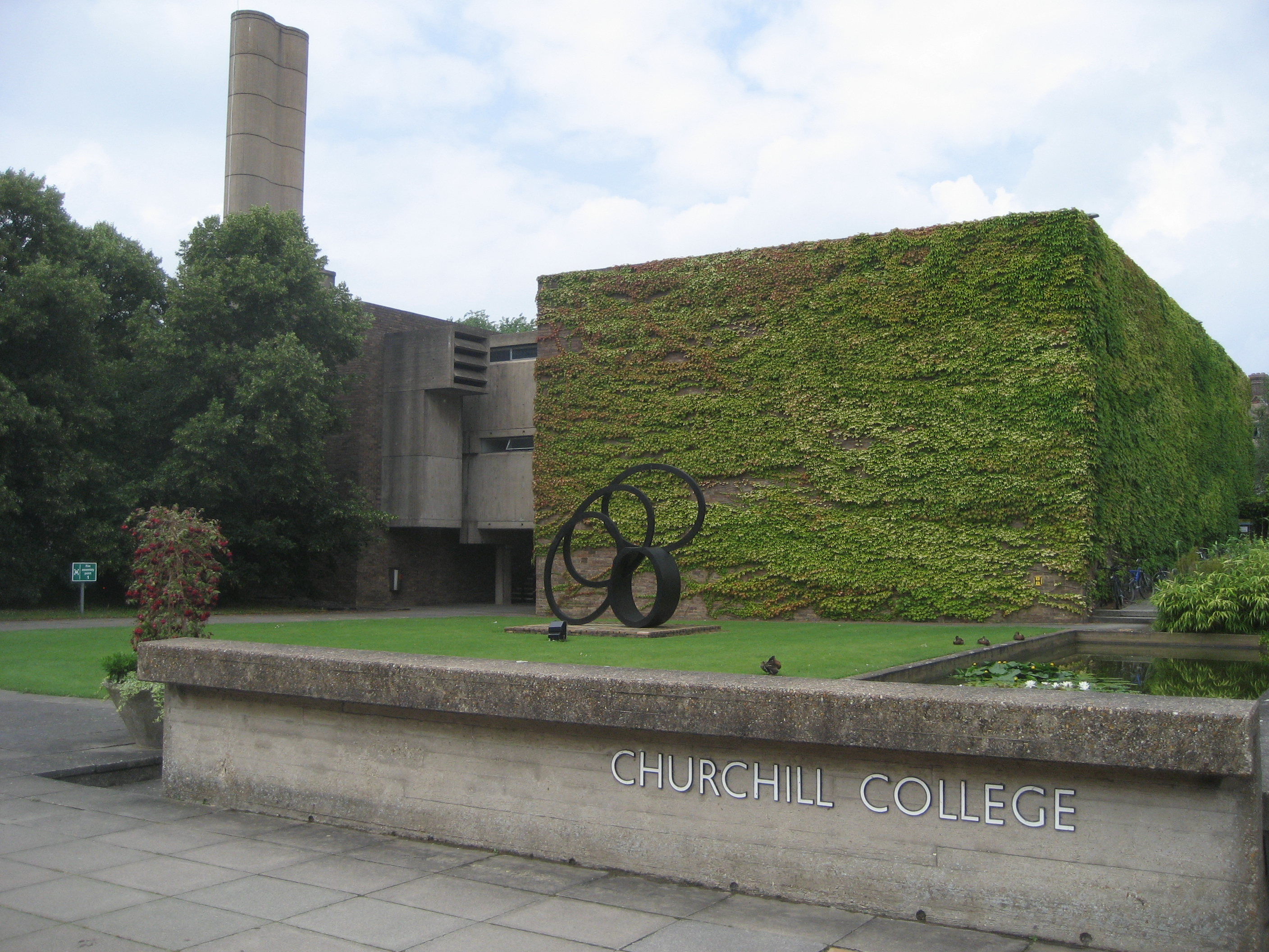 Churchill College, University of Cambridge, England (UK). Sculpture: Southern Shade by Nigel Hall.